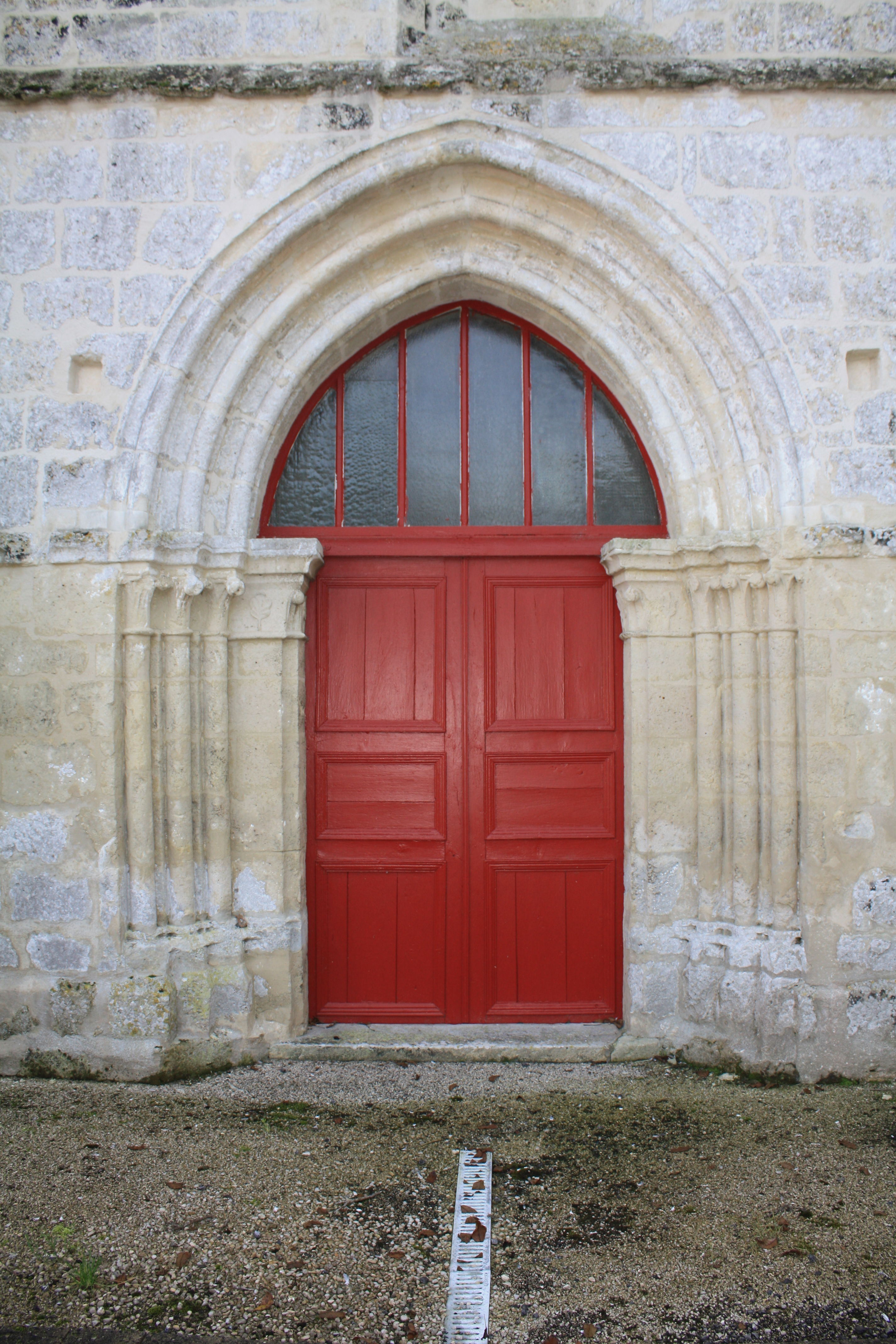 Église Saint-Jacques de Nampteuil-sous-Muret 3